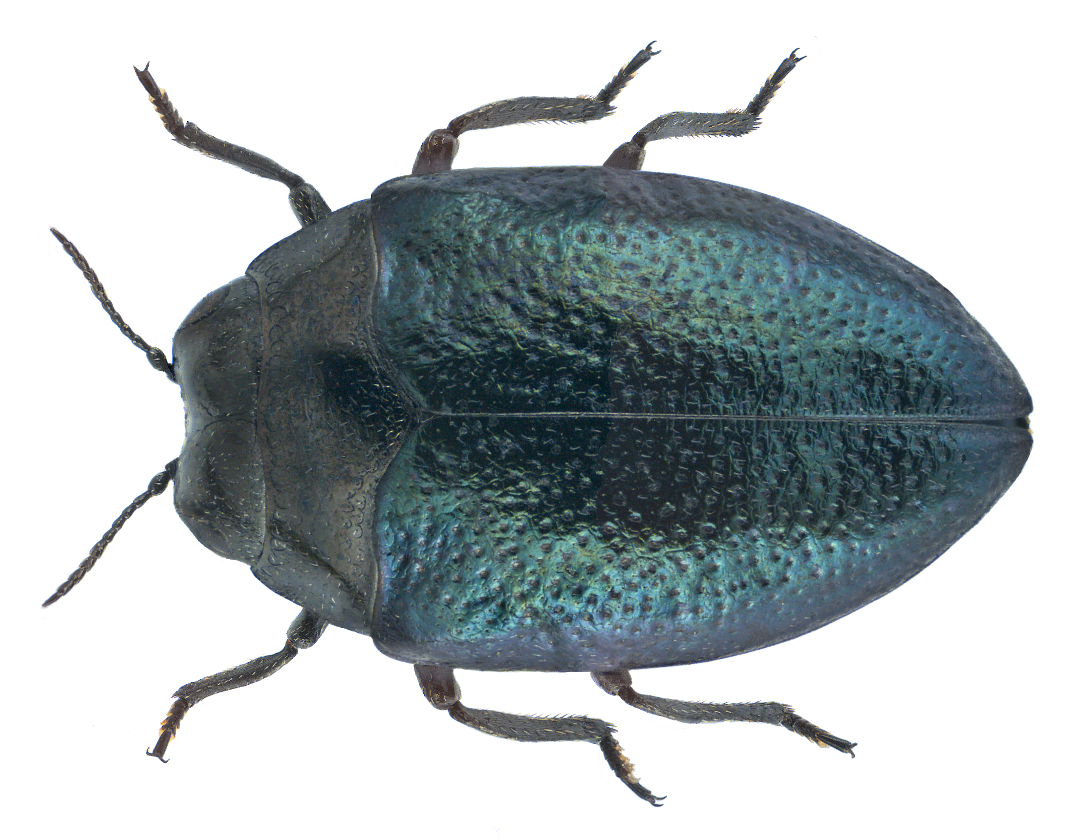 Family: Buprestidae Size: 3,2 mm (2,0 to 3,5 mm) Distribution: Europe to Asia Minor Ecology: development in Dipsaceae Location: England, Newbury leg.det. P.Harwood, 30.X.1904 Coll. Oxford University of Natural History Photo: U.Schmidt, 2015